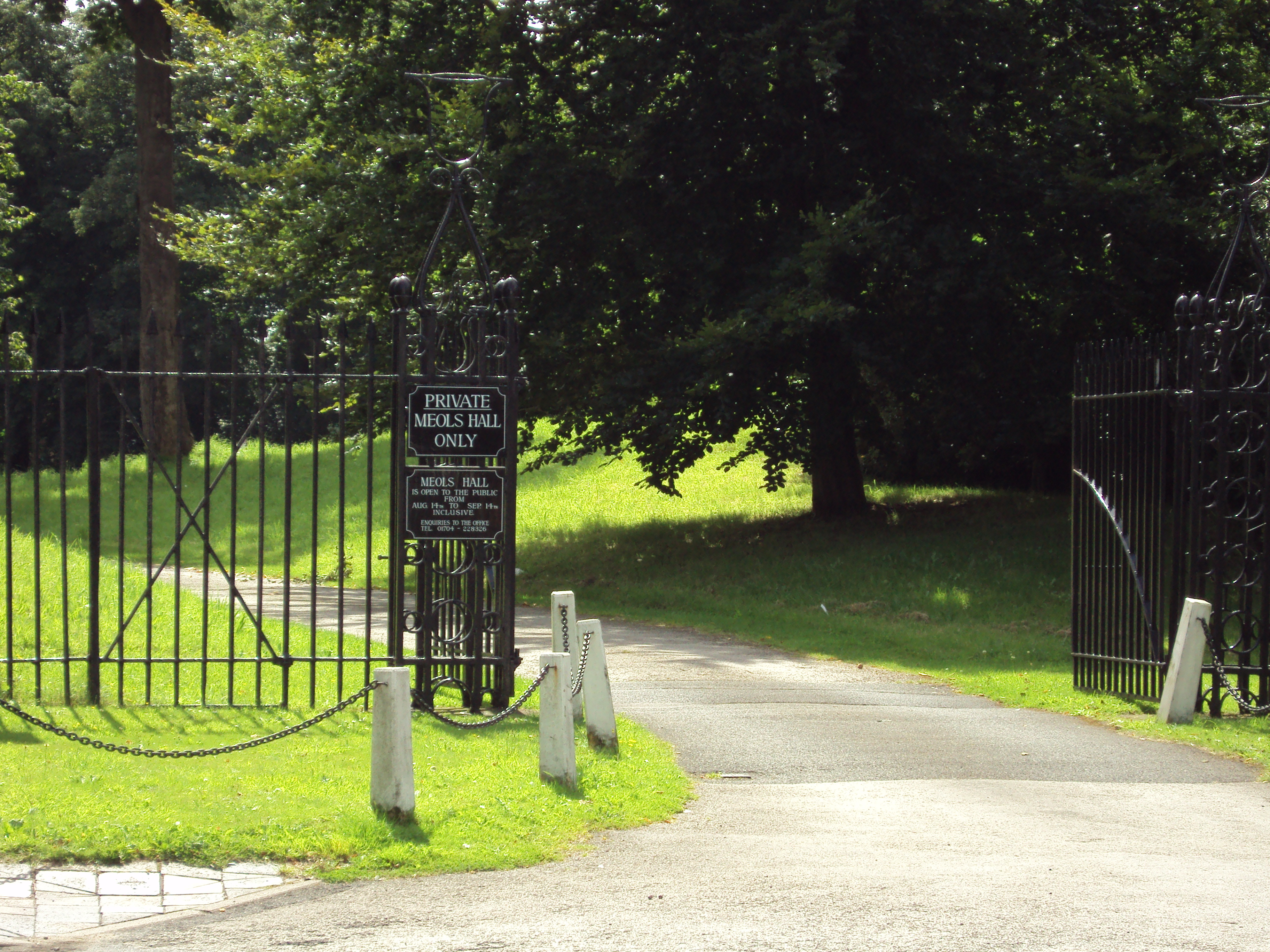 Entrance to Meols Hall on Botanic Road, Churchtown, Southport, Merseyside, England.